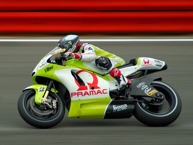 Mika Kallio blasts the Pramac Ducati down the pit straight at Silverstone, June 2010